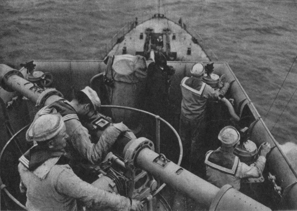 Rangefinder on the Polish destroyer ORP Burza